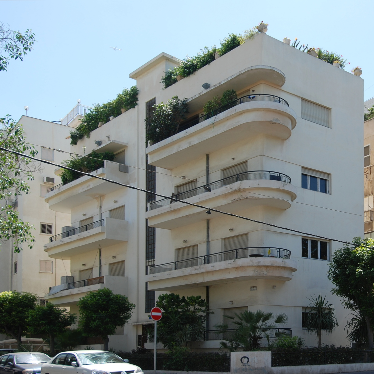 International Style building on the corner 32 Ben Gurion Avenue/17 Emile Zola Street, Tel Aviv under preservation as part of the White City of Tel Aviv. Architects H. Sima and A. Glik. Completed 1935. Renovated 1995.